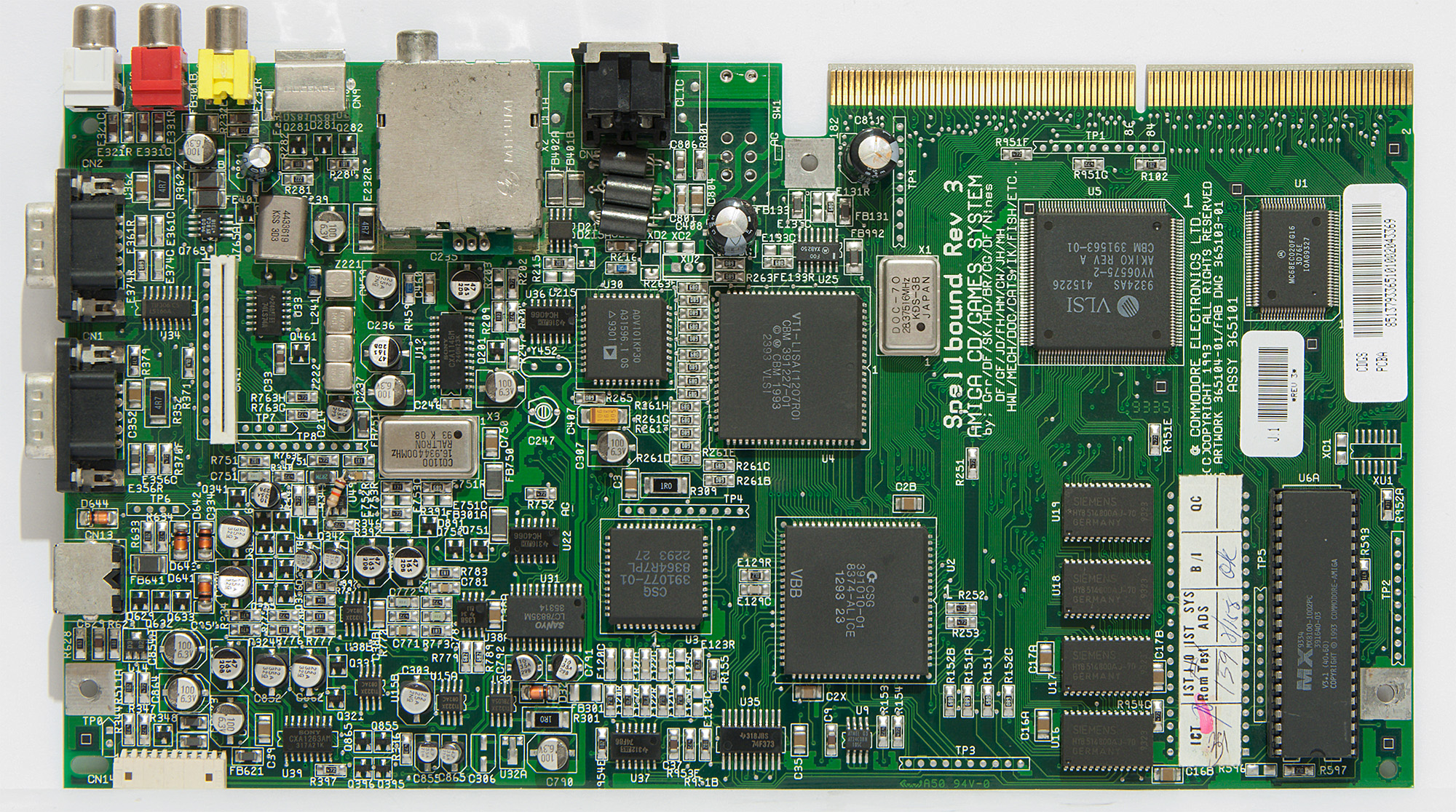 Commodore Amiga CD32 Mainboard (1993) (Note: Power switch has been removed) Details: ISO: 100 Photographer: Bill Bertram